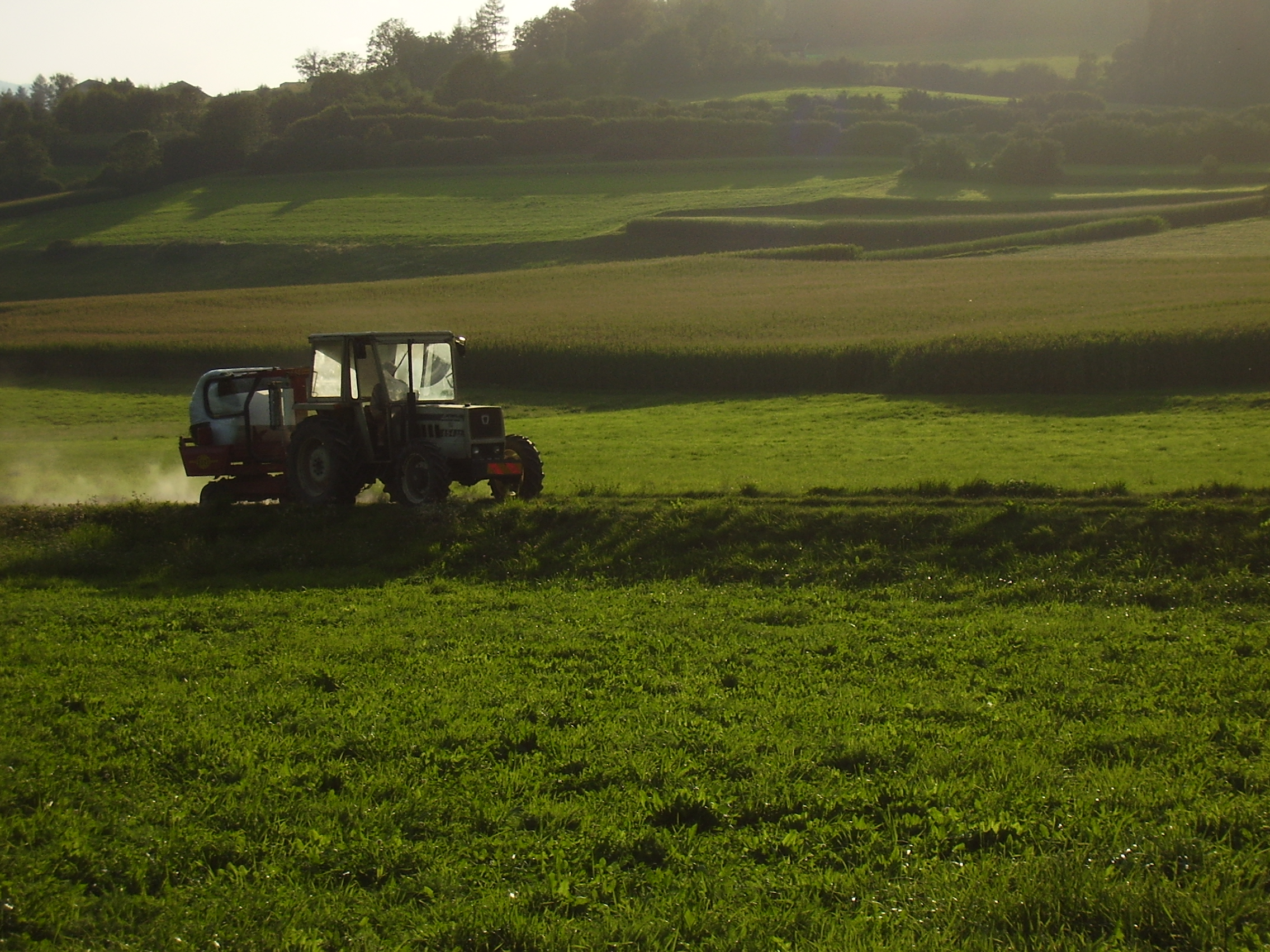 Agriculture in St. Georgen (Bruneck, South Tyrol, Italy)